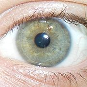 A green eye